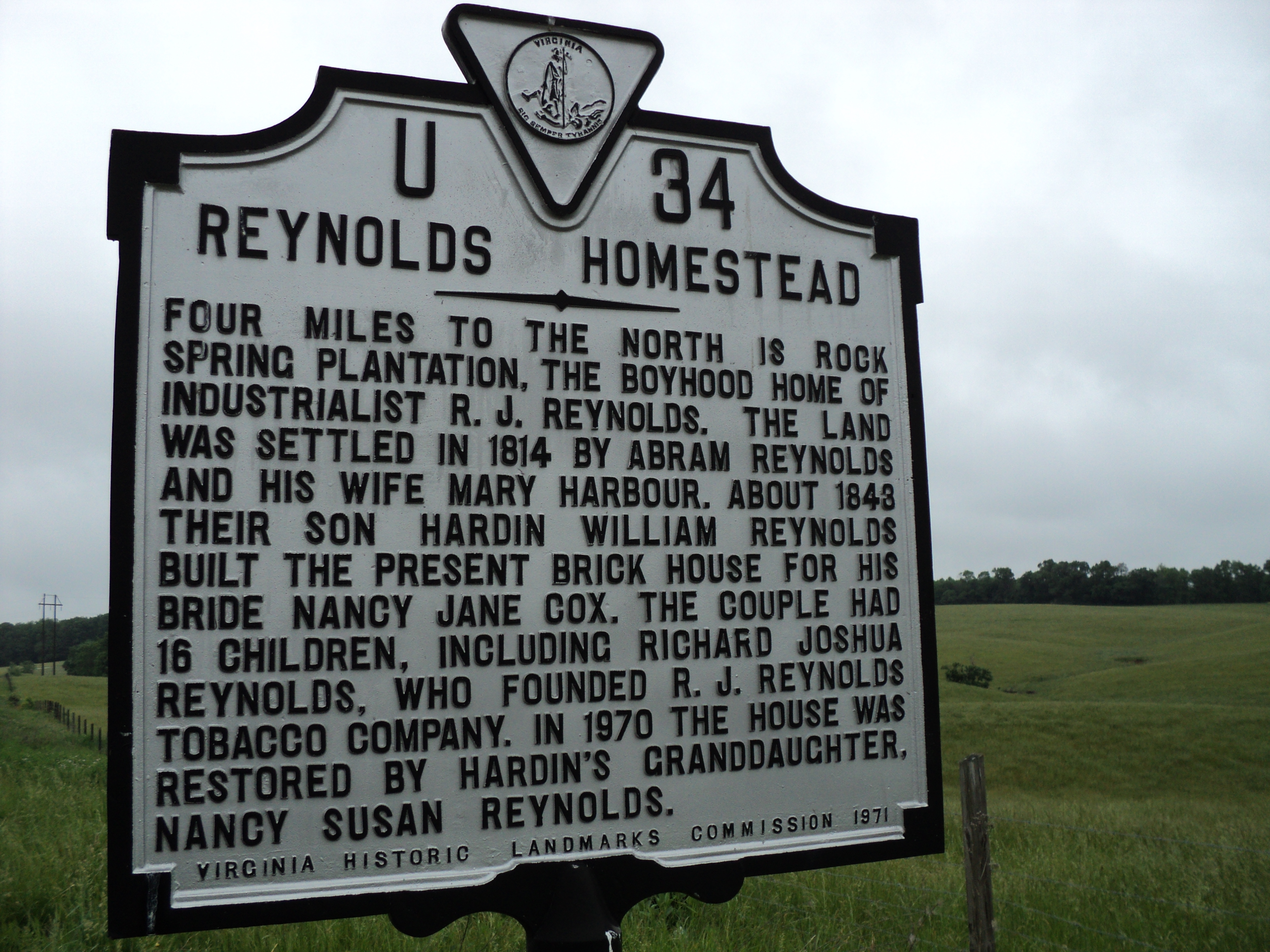 Virginia state historic marker for Reynolds Homestead, Patrick County, Virginia.